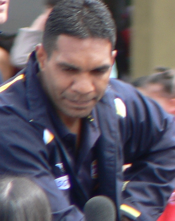 David Wirrpanda